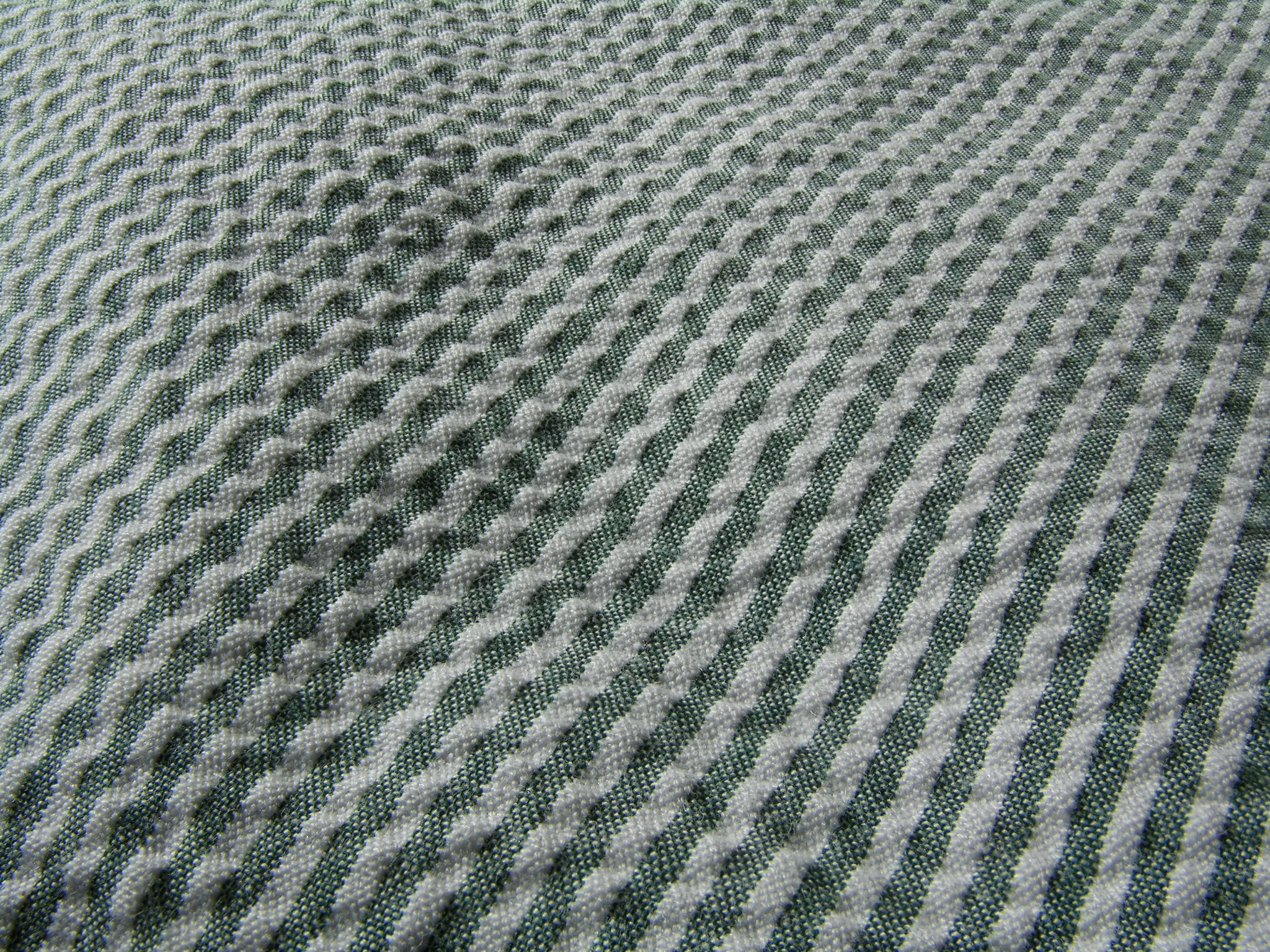 Image of green/white striped seersucker fabric. This image is a merged composite stack of images for increased depth of field.